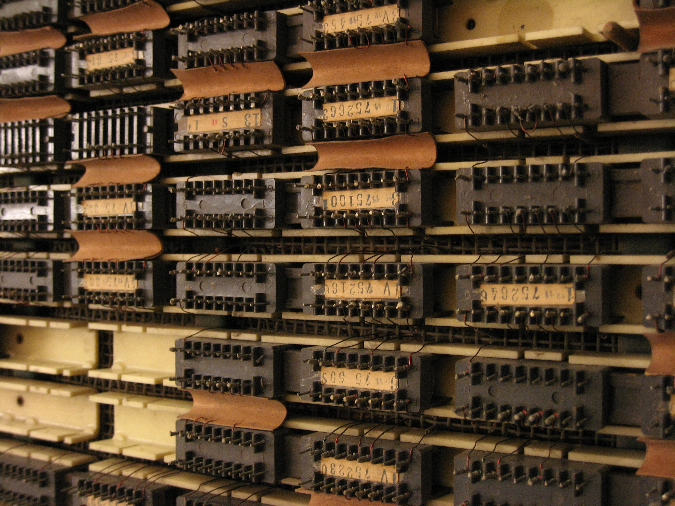 Ferrite-cores of the ZRA 1